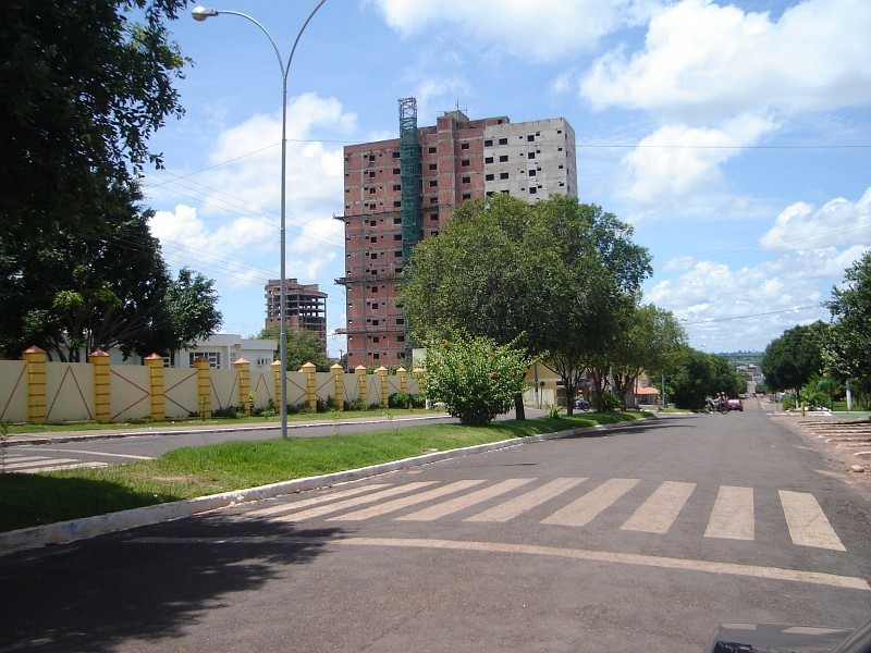 Street of Cacoal, Rondônoa, Brazil.